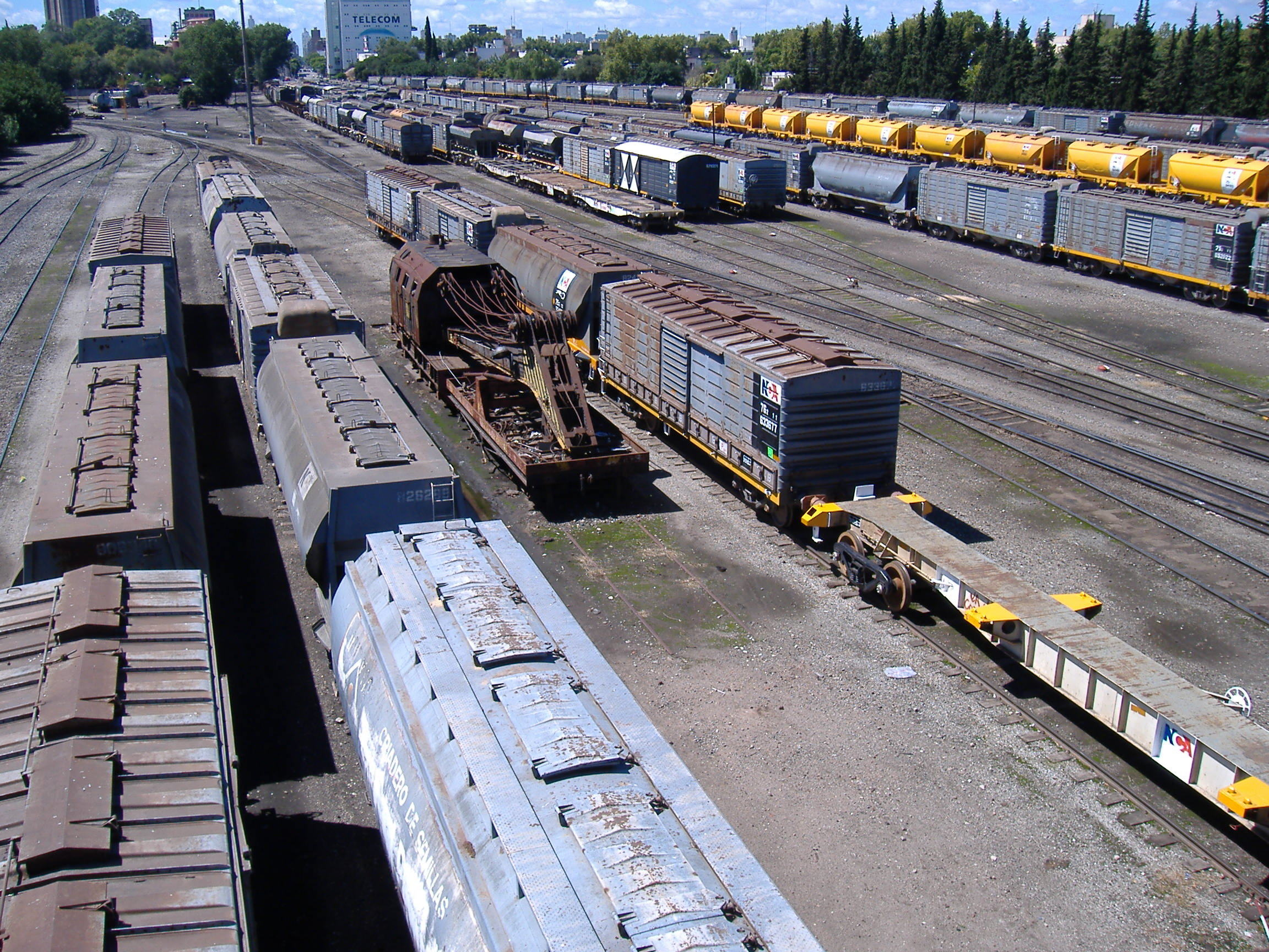 The Patio Parada, base of operations of the railway system in Rosario, Argentina, now managed by Nuevo Central Argentino railway company. The Patio is located on the Cruce Alberdi (Alberdi Cross, the confluence of Alberdi Avenue, on the north-east part of the city, with Salta St. and Bordabehere St.). This view is from the elevated Viaducto Avellaneda. This picture was taken by Pablo D. Flores on 4 March 2006.